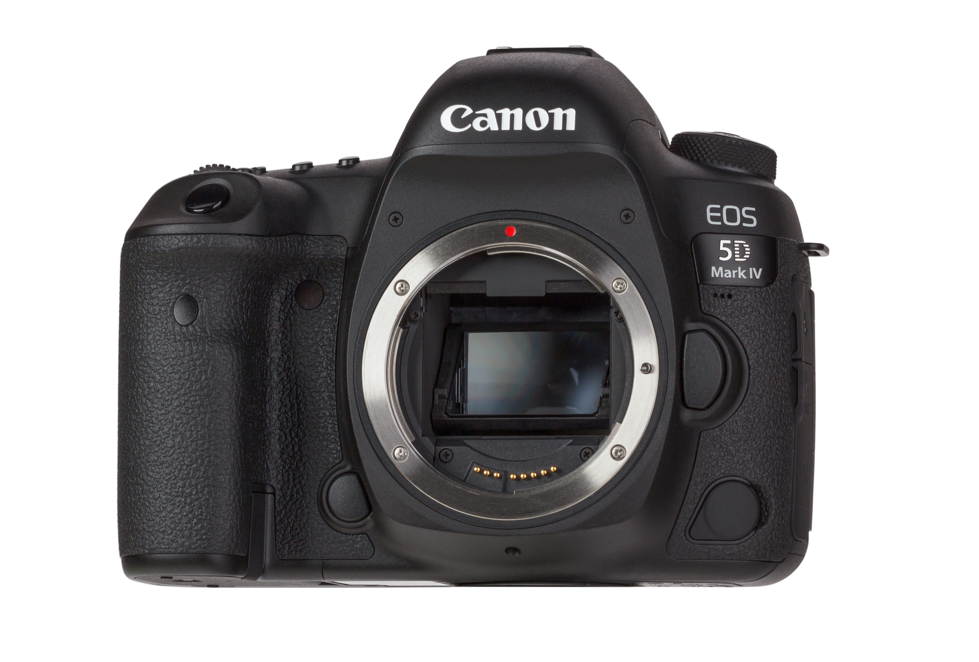 Canon EOS 5D Mark IV, Front view with cap removed